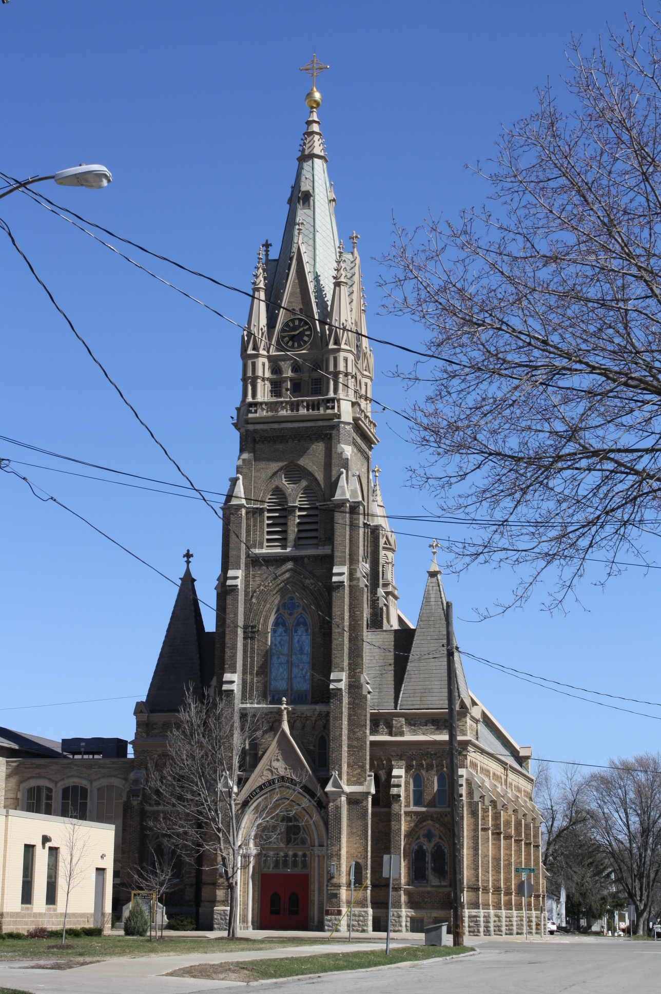 The Zion Lutheran Church (Appleton, Wisconsin) in Appleton, Wisconsin, listed on the National Register of Historic Places.